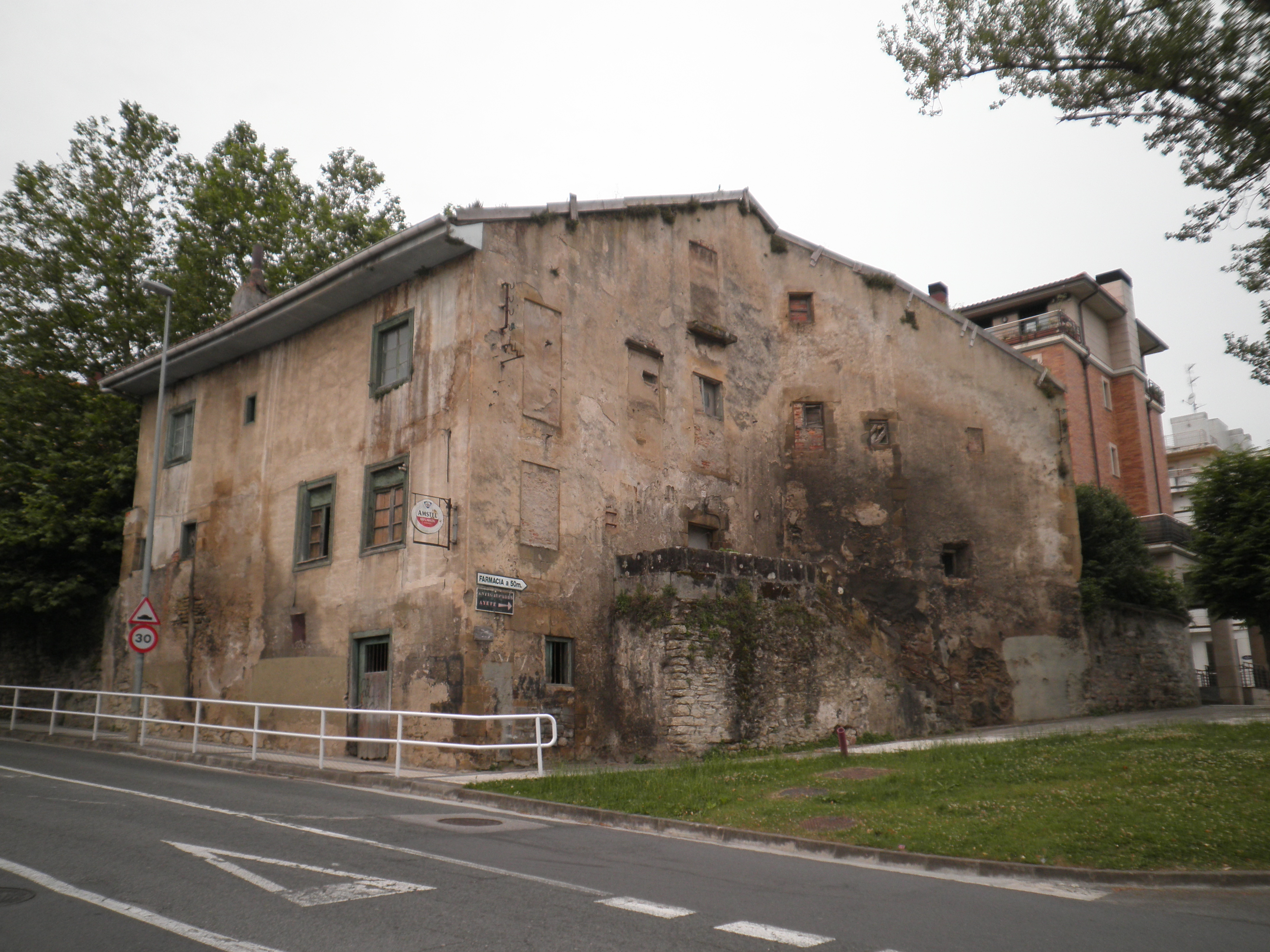 Munto ancient farmhouse in Aiete.